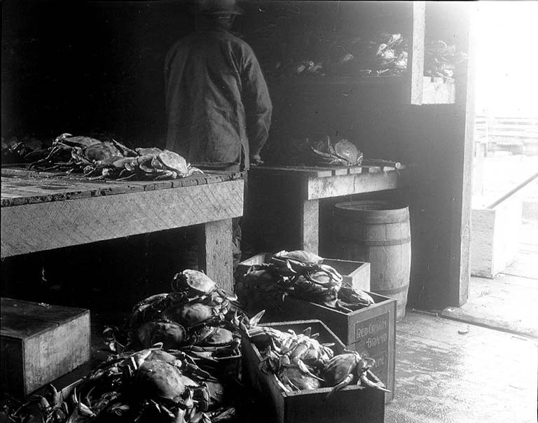 From John Cobb field notebook: Crabs at Andrew Arneson's place, Wrangel. Sept. 3, 1910 Subjects (LCSH): Crab fisheries--Alaska--Wrangell; Crabs--Alaska--Wrangell